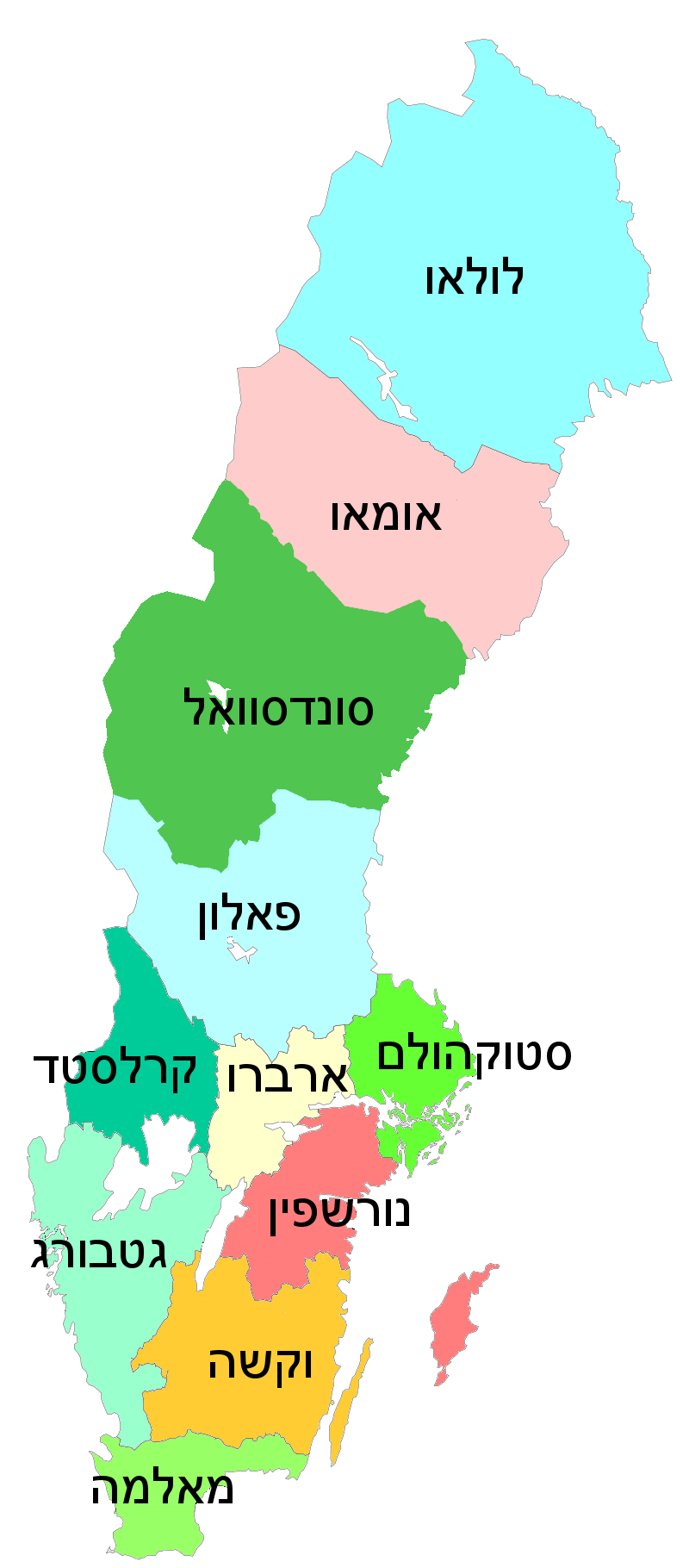 Cities in which juries at the Melodifestivalen final are based, and the districts they represent.